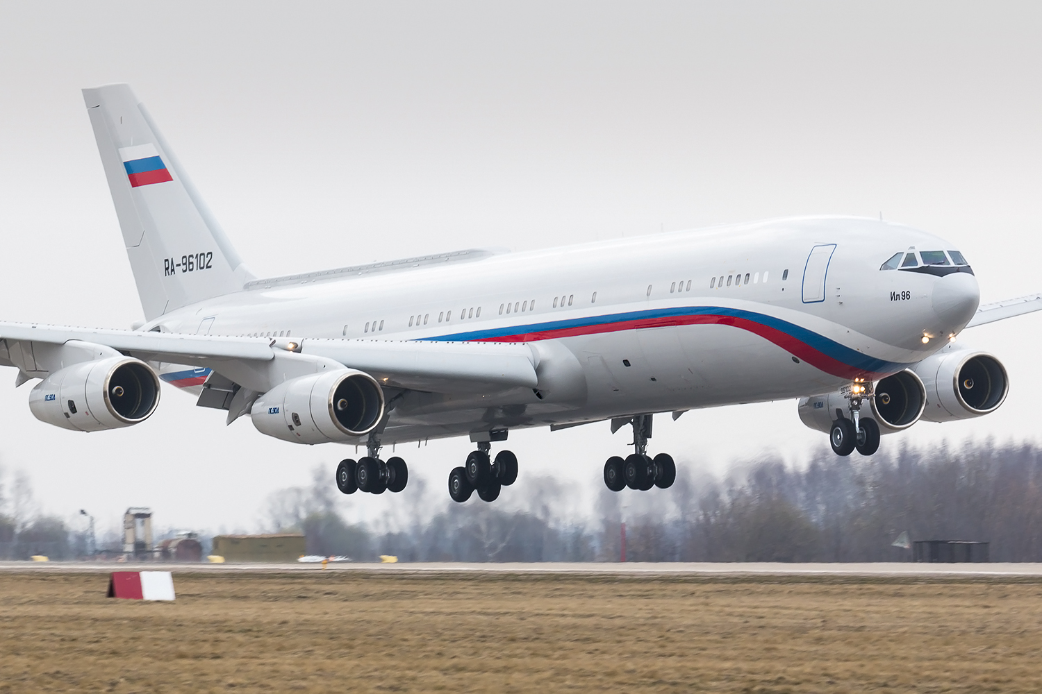 Ilyushin IL-96-400VVIP (ex. IL-96-400T "Polet") converted into passenger version from cargo variant for Ministry of Defence